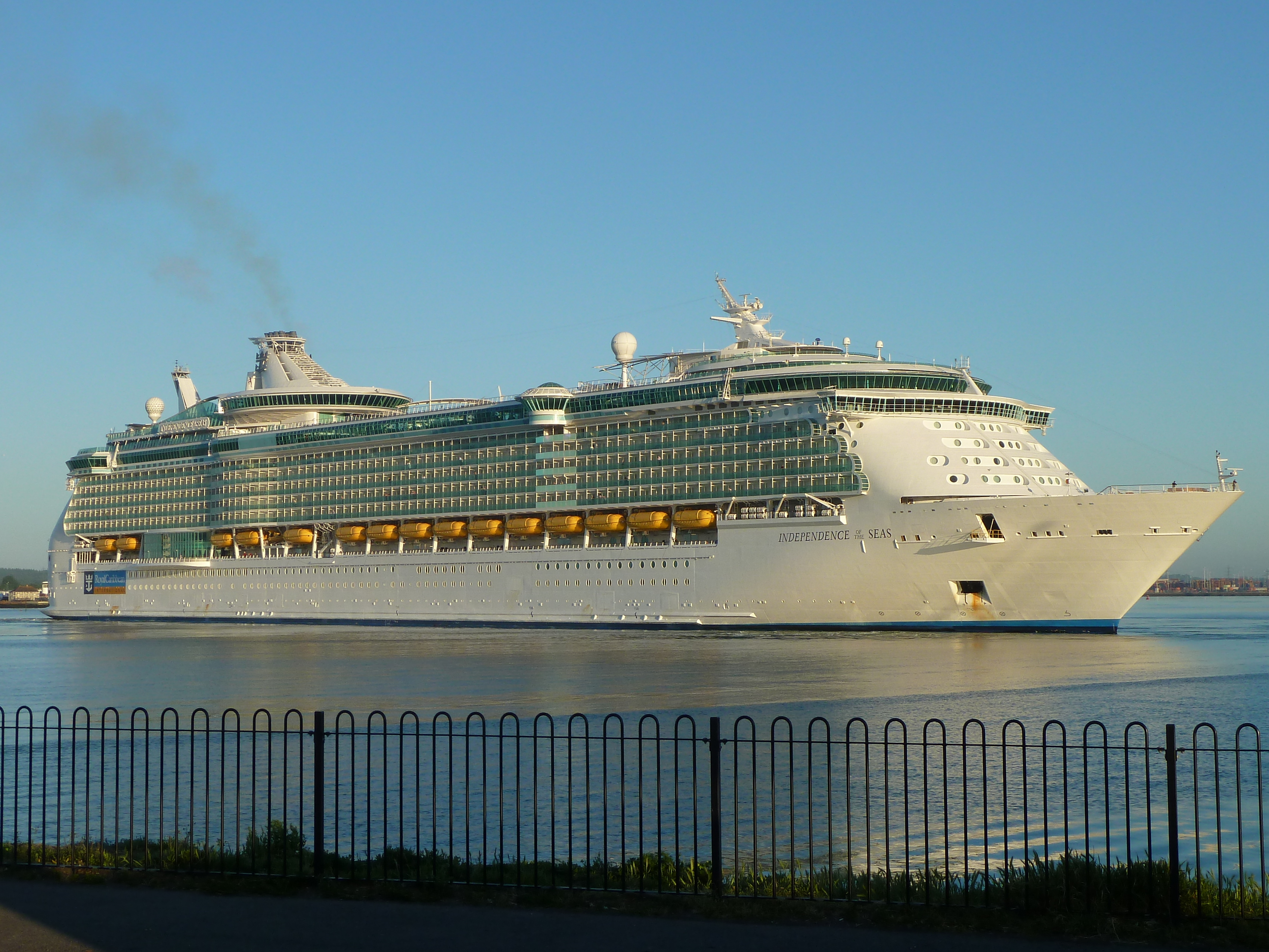 MS Independence of the Seas seen from Mayflower Park, Southampton, docking at the nearby City Cruise Terminal on 14th May 2011